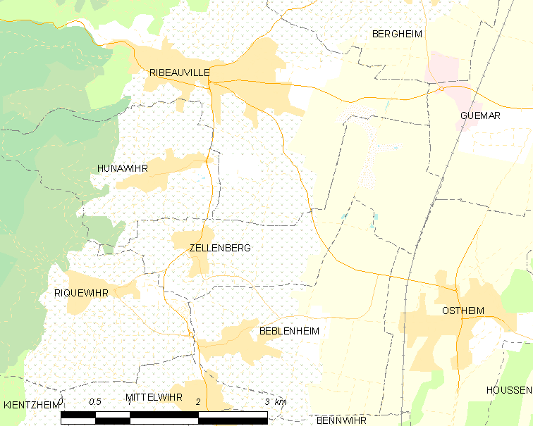 Map of French municipality